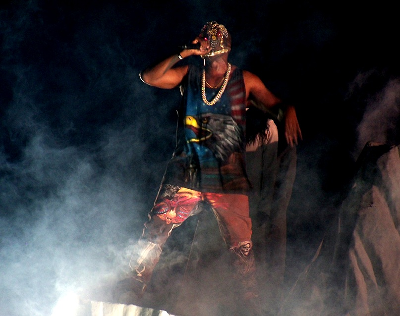 A masked Kanye West performing at Staples Center on October 26, 2013 in Los Angeles on The Yeezus Tour.